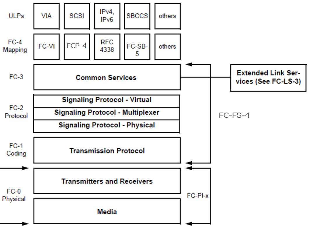 This illustration shows the Fibre Channel layers from the physical layer to the upper level protocols.